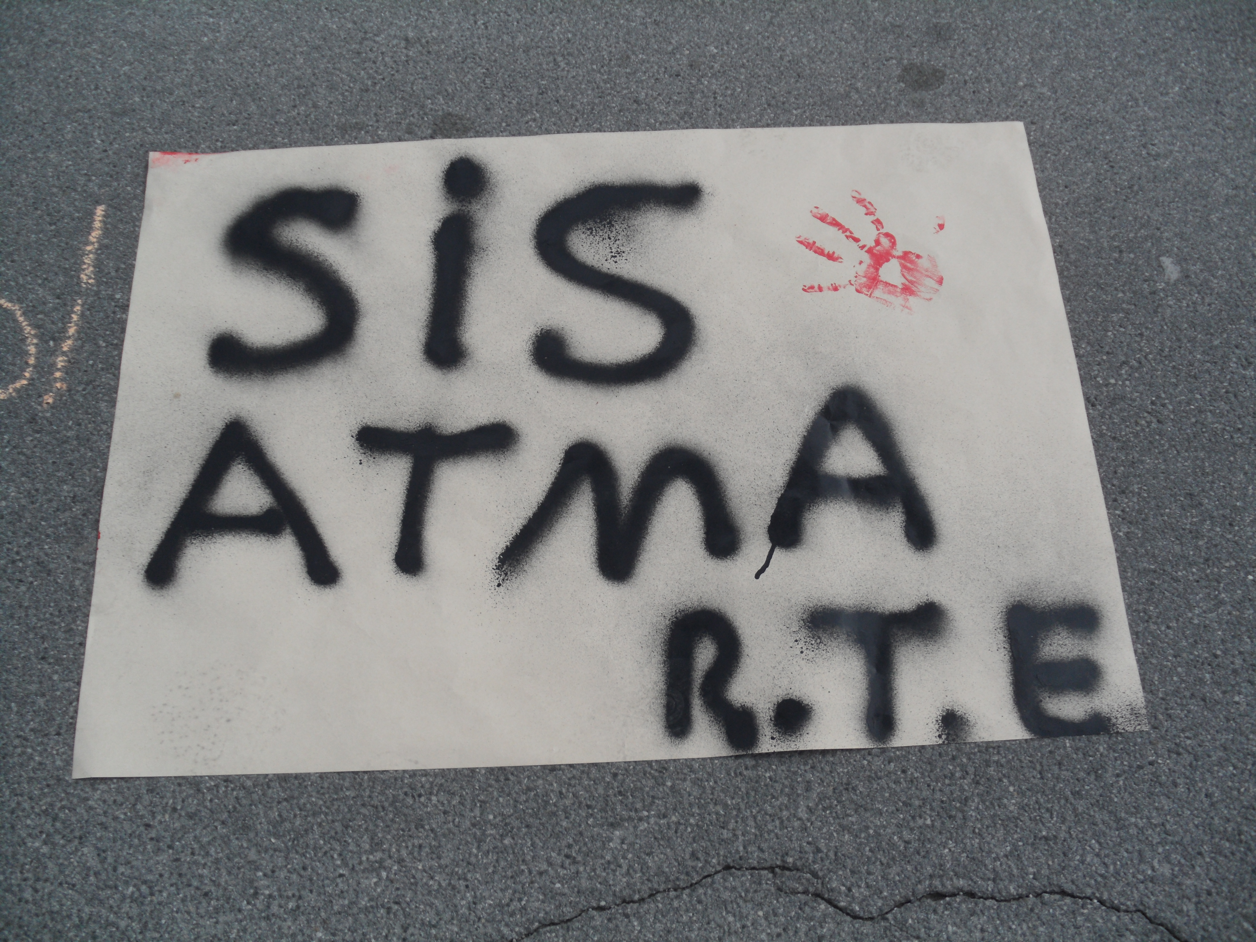 Turkey, You are not alone -- Slovenian solidarity march with the Turkish uprising. Around 100 people gathered on Monday, 3 June 2013, in front of the Turkish embassy in Ljubljana, Slovenia, to condemn the police brutality and to show solidarity with insurections in Turkey. This was the second solidarity march with the Turkish uprising in Ljubljana (the first one was held on Saturday, 1 June 2013).